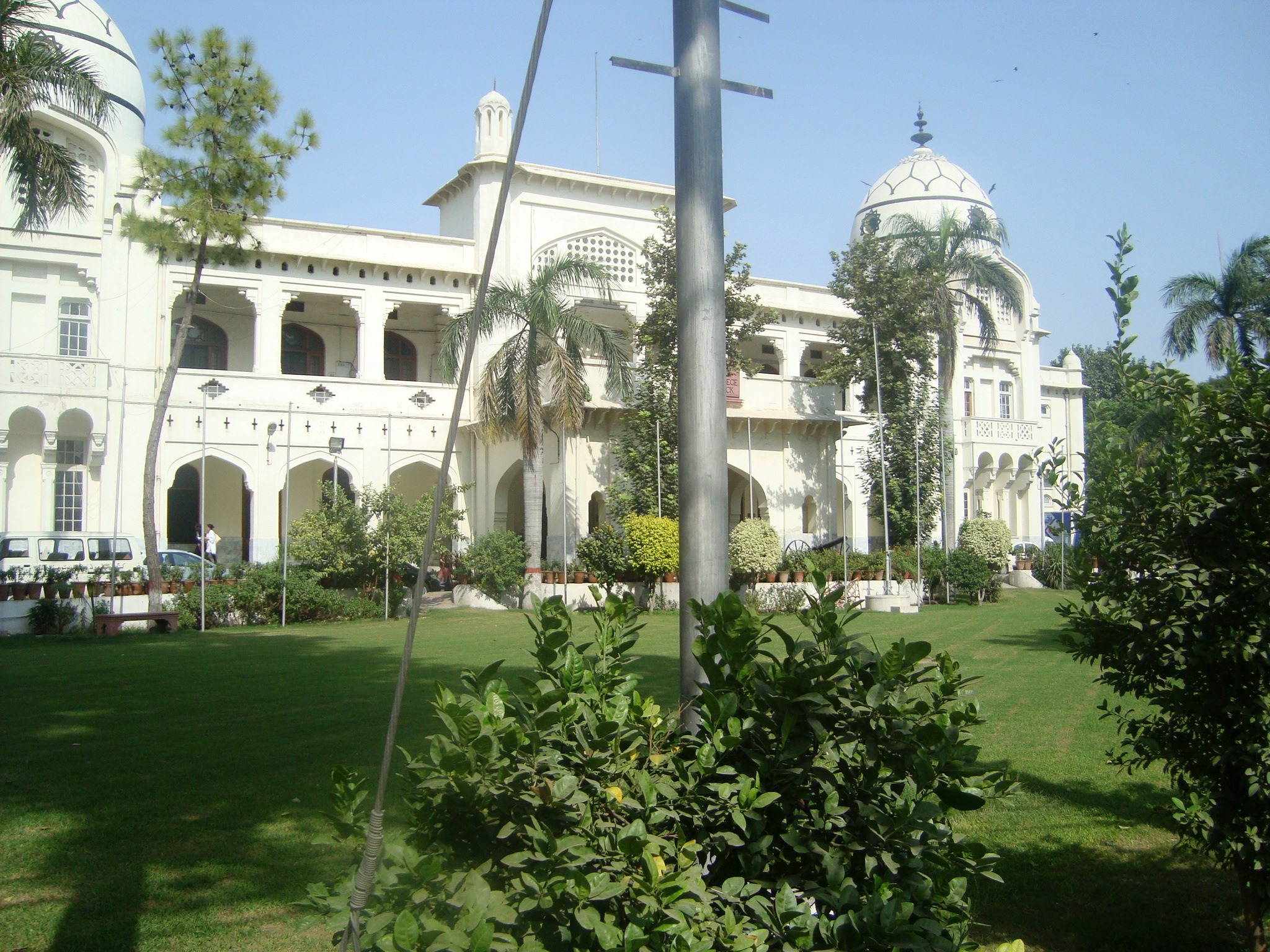 King Edward Medical University This is a photo of a monument in Pakistan identified as the PB-P-64